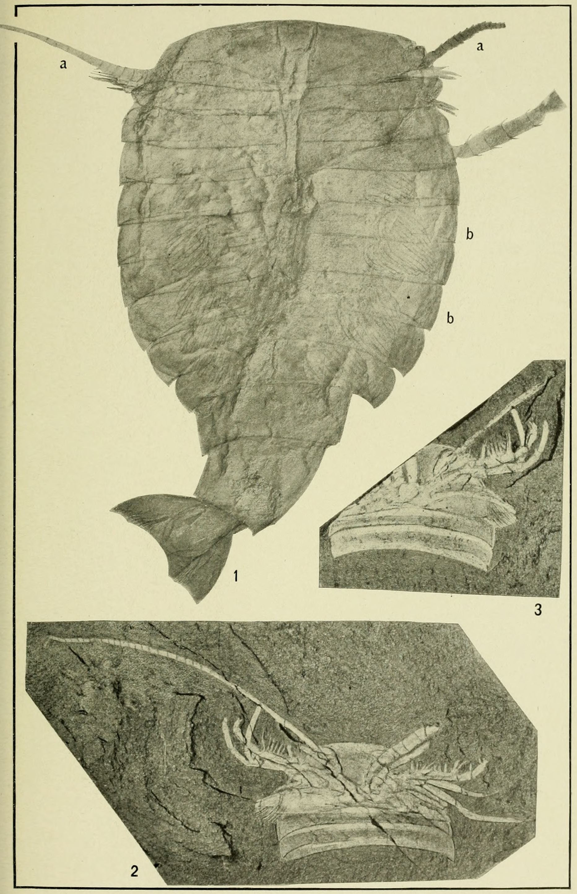 Plate 2: Middle Cambrian Merostomata (Sidneyia) 1. Sidneyia inexpectans (Walcott) = 2. Sidneyia inexpectans (Walcott) = 3. Sidneyia inexpectans (Walcott) =